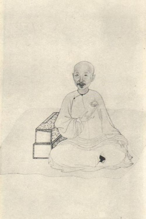 WU Lanxiu, scholar of the Qing Dynasty.